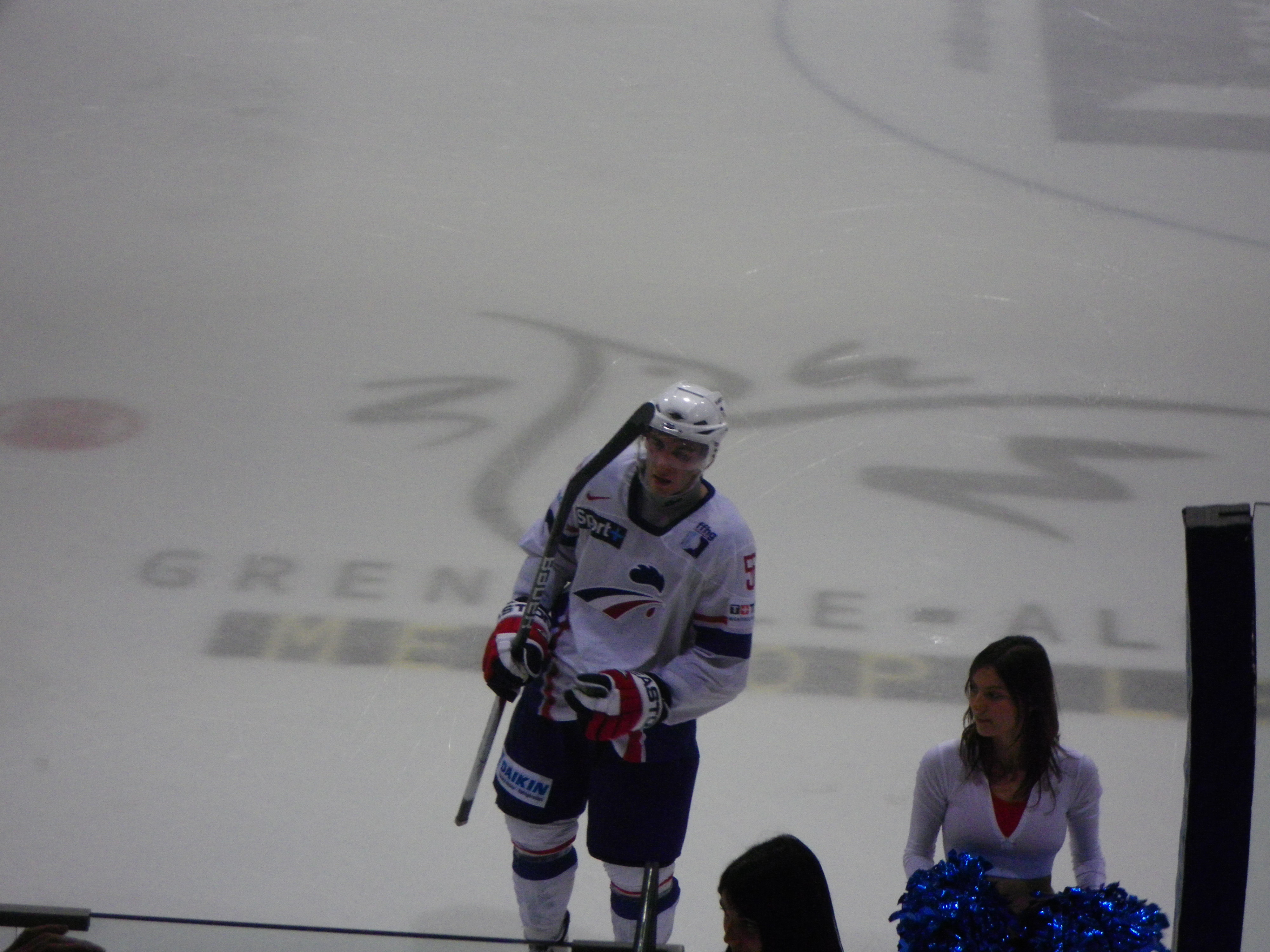 Johan Auvitu, french ice hockey player with team France. Friendly against Team Denmark.